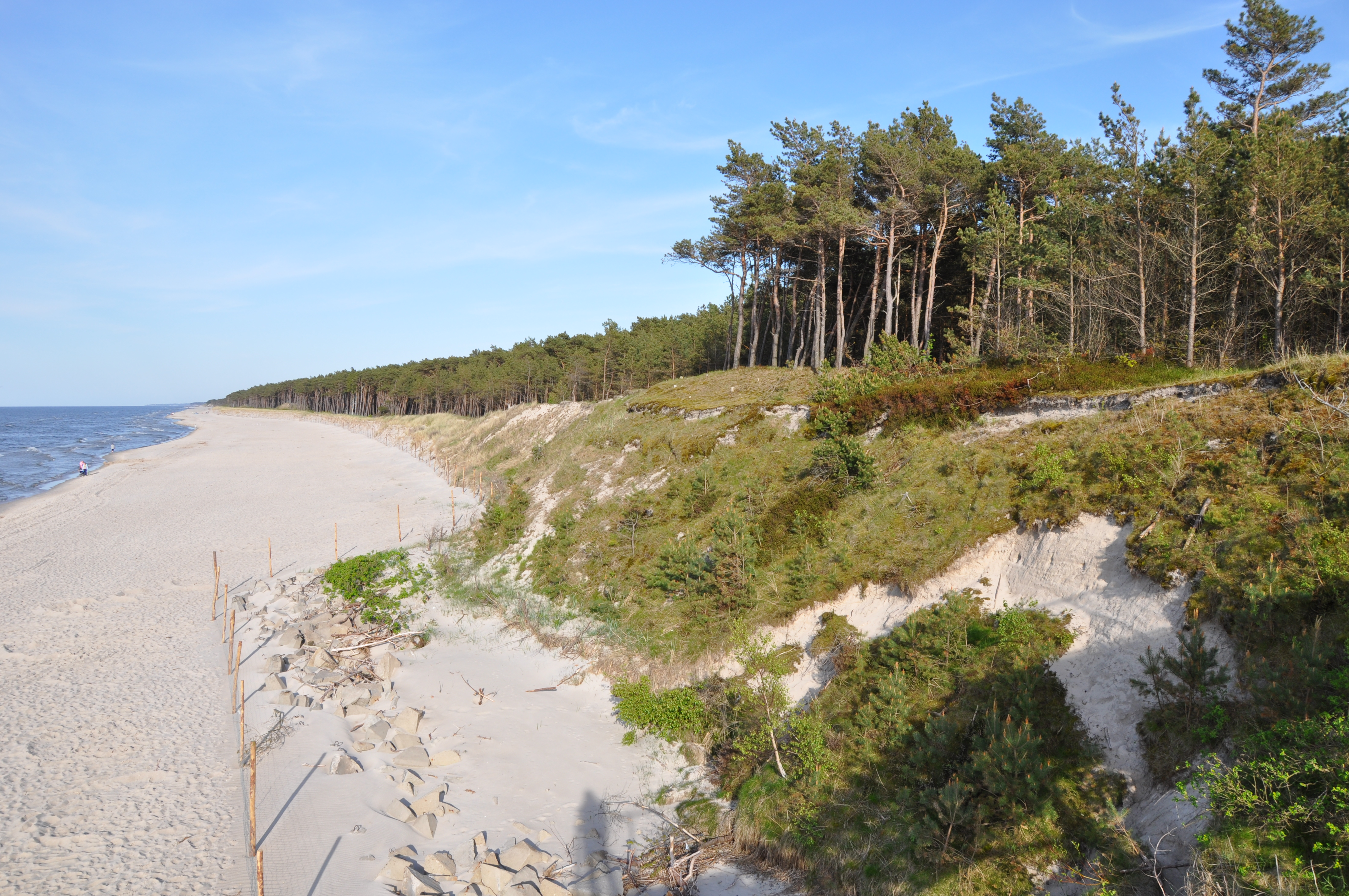 Coastal dune on the east beach in Mrzeżyno, Poland